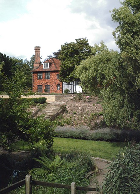 Southchurch Hall. Southchurch Hall, now a museum, stands in a delightful little park almost hidden by the surrounding terraced streets.